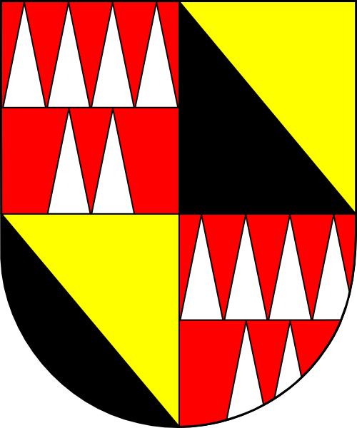 Coat of arms (shield only) of Pavel z Miličína, bishop of Olomouc, Czech Republic (1434 - 1450).